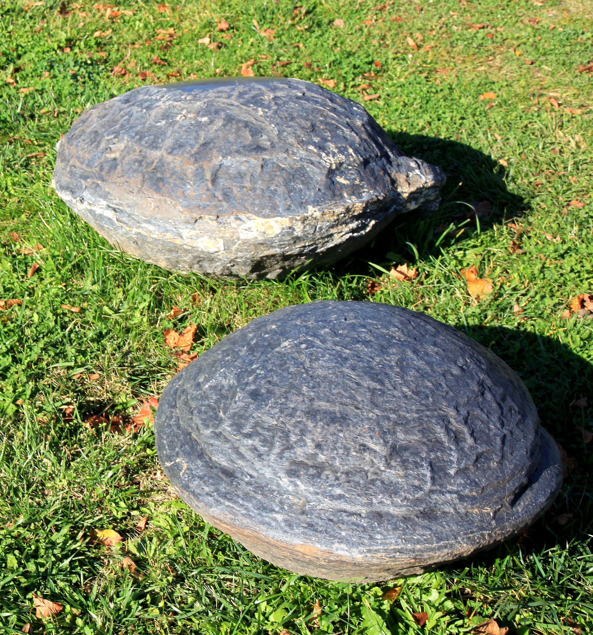 Pyrite-carbonate Concretions from small island in Vltava river in Prague shown in small geopark “Geologická zahrada” in Dolní Počernice, Prague, Czech Republic